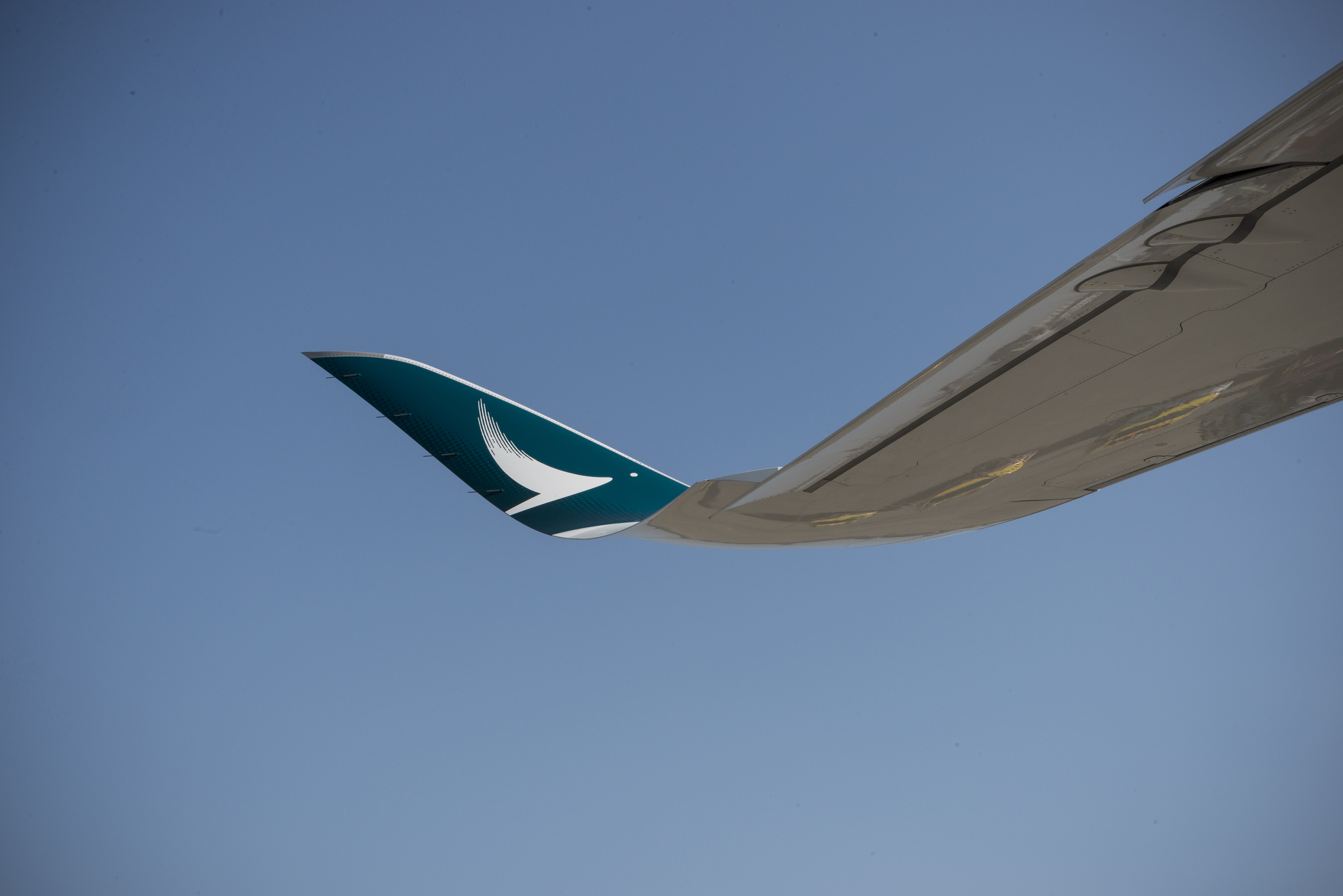 Cathay Pacific inaugural flight 25 March